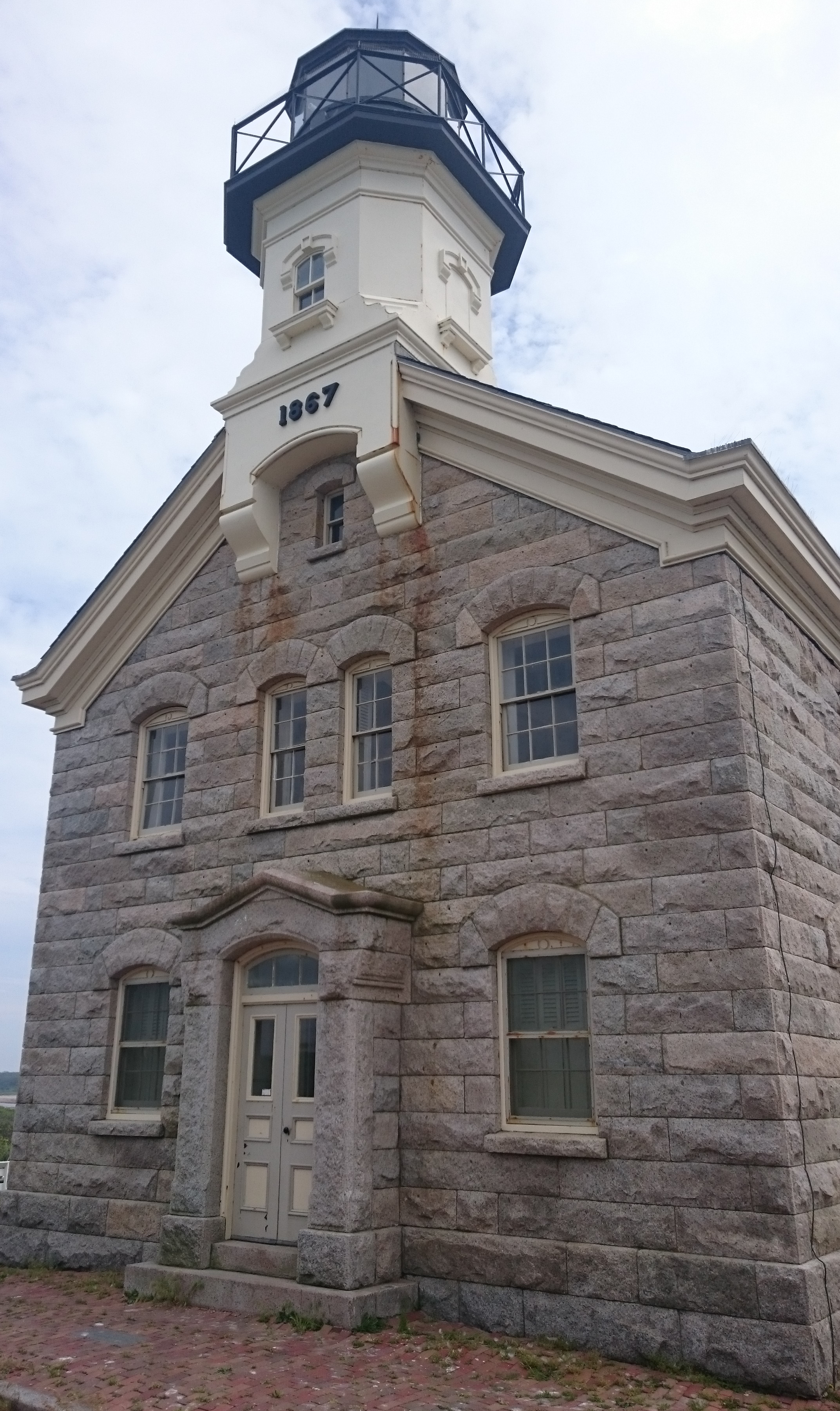 Front of the North Light on Block Island showing the tower